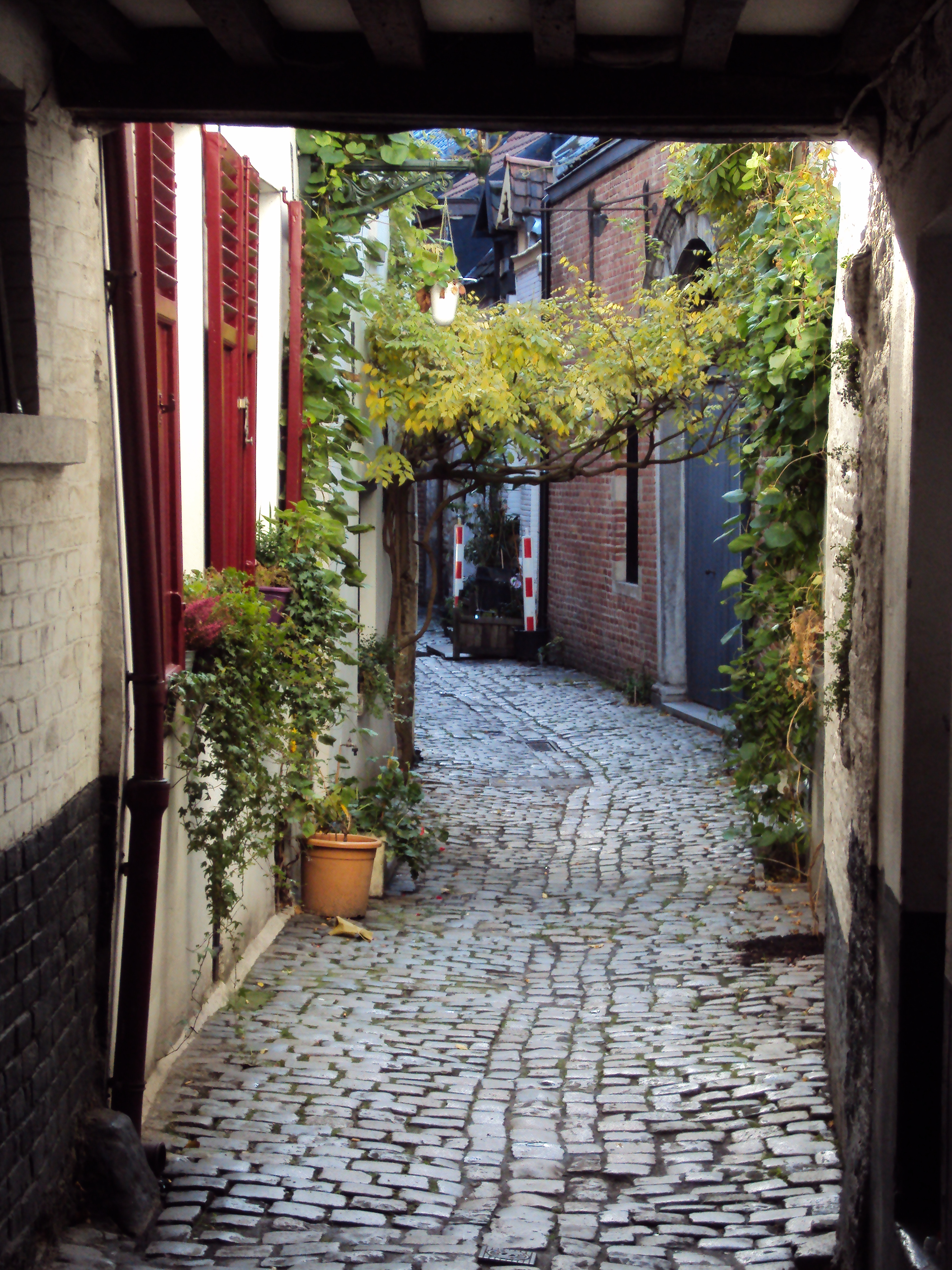 Rue de la Cigogne/Ooievaarstraat, narrow street to the rear buildings in the City Center of Brussels, entrance from rue de la Flandre/Vlaamsesteenweg